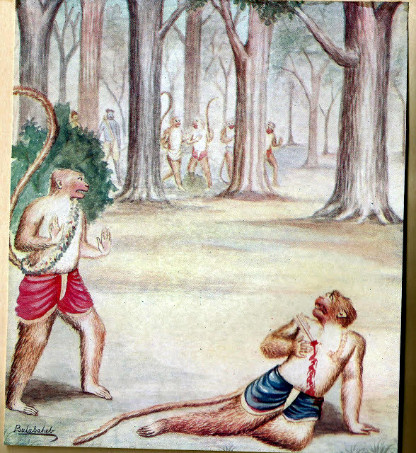 On their long search, Rama and Laxmana reached Rishyamukha mountains. Sugreeva spotted them, and impressed by their royal appearance sent his assistant monkey Maruti (a.k.a. Hanuman), to befriend them. Rama was equally eager to meet Sugreeva. Maruti then took them to Sugreeva's forest court. Apparently, Sugreeva had preserved the ornaments Sita threw at him, as a symbol of identity, when Rawana was carrying her away through air. Listening to Rama's story, Sugreeva showed the ornaments to Rama, which he instantly recognized as his wife's. Rama's grief was great at the sight of lost Sita's jewelry. Sugreeva promised him all help to find out Sita's whereabouts. Rama in return promised to kill the usurper Vali and get back Sugreeva's lost kingdom.